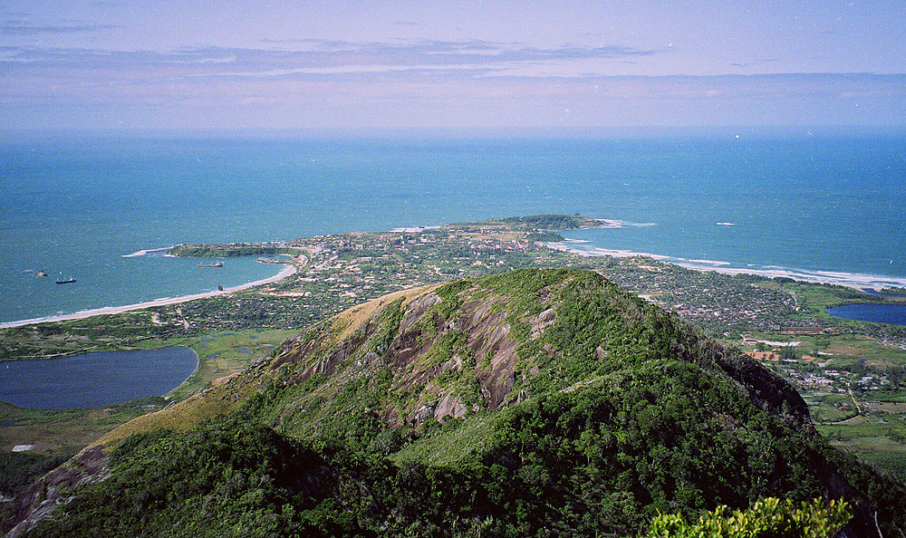 Image of Tolagnaro from top of mountain. Picture by Henry Trotter, 1995. Picture from wikipedia en.